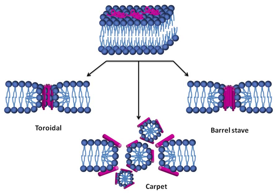 Models of lipid membrane permeabilization by AMPs. Initially, the peptide (magenta) is adsorbed at the membrane surface. After an initial recognition of the surface, a conformational change of the peptide occurs. Once a threshold concentration of peptide on the membrane is reached, it is followed by membrane disruption by one of these three mechanisms.